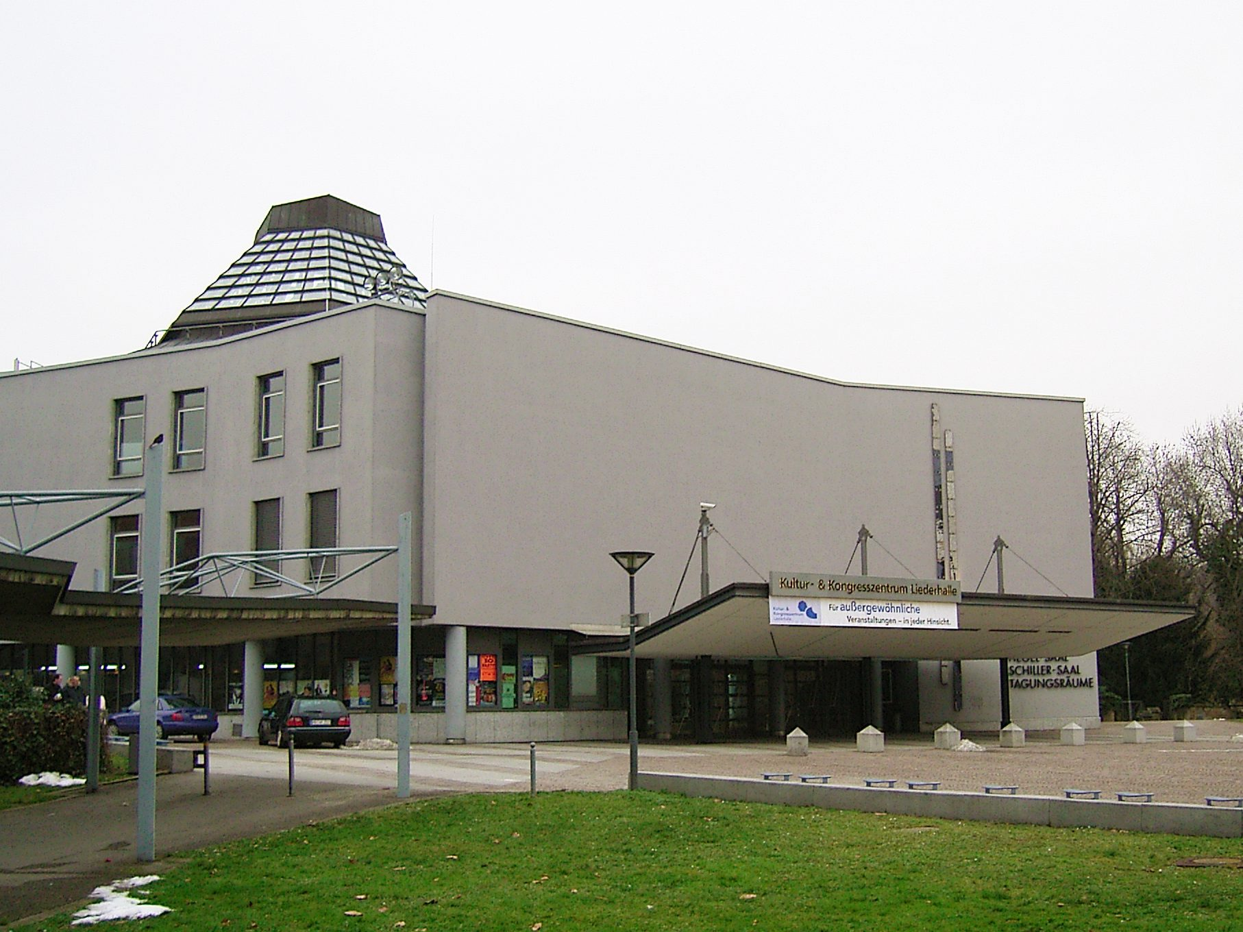 The Culture and Convention Center "Liederhalle" in Stuttgart